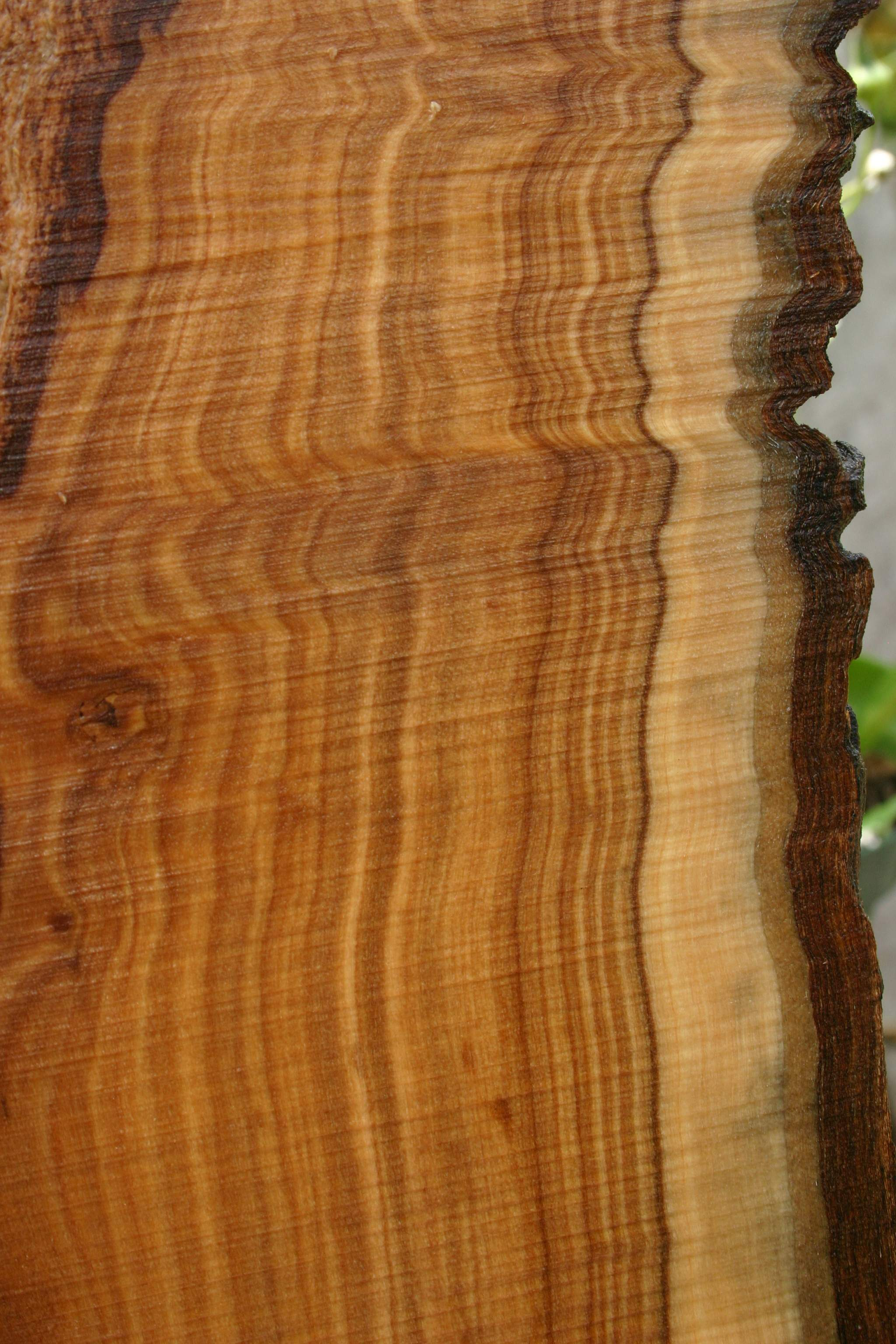 Longtudinal section of Tarchonanthus camphoratus - Chucklenook, Honeydew, Johannesburg